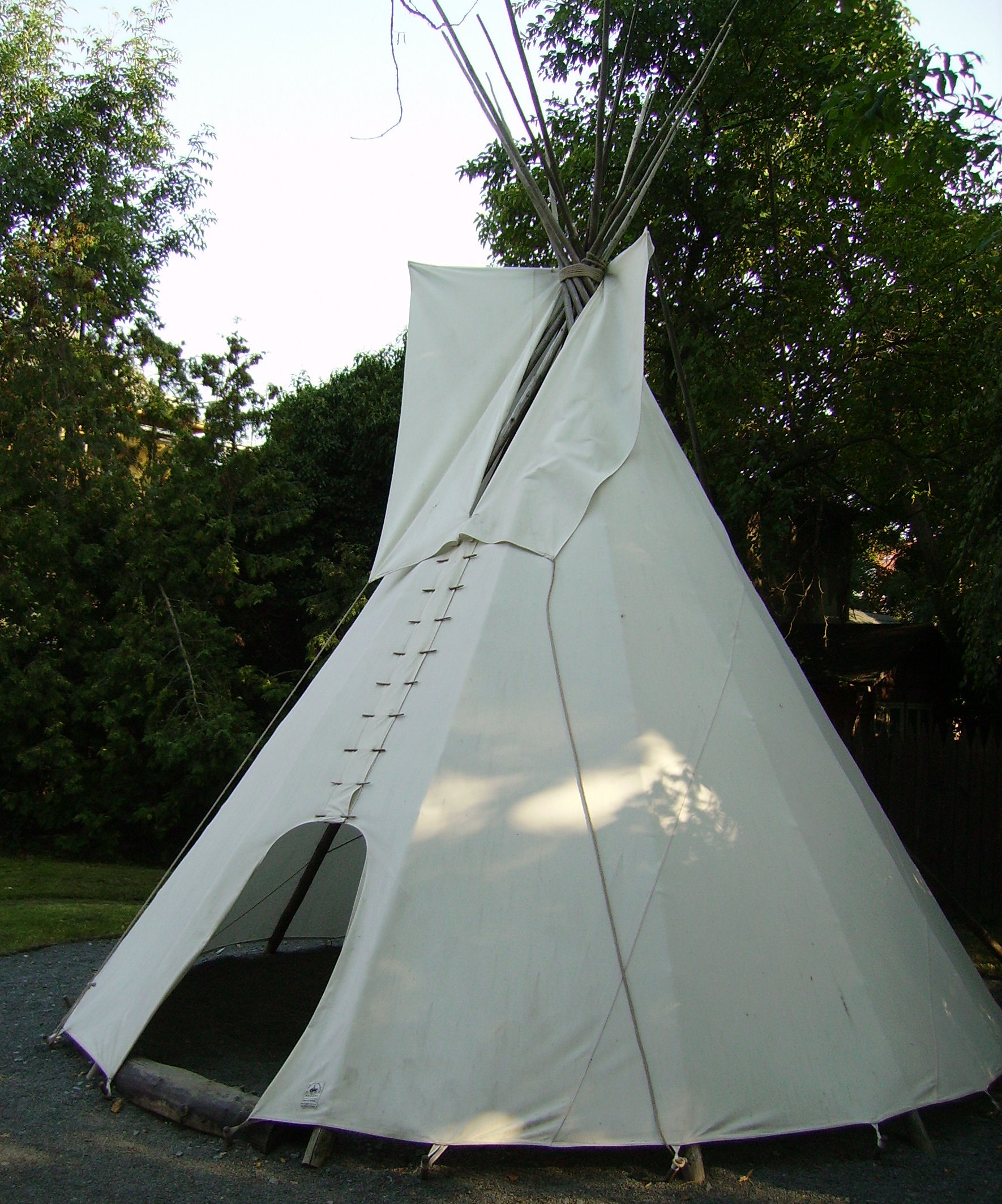 Karl May Museum in Radebeul (Dresden, Germany)